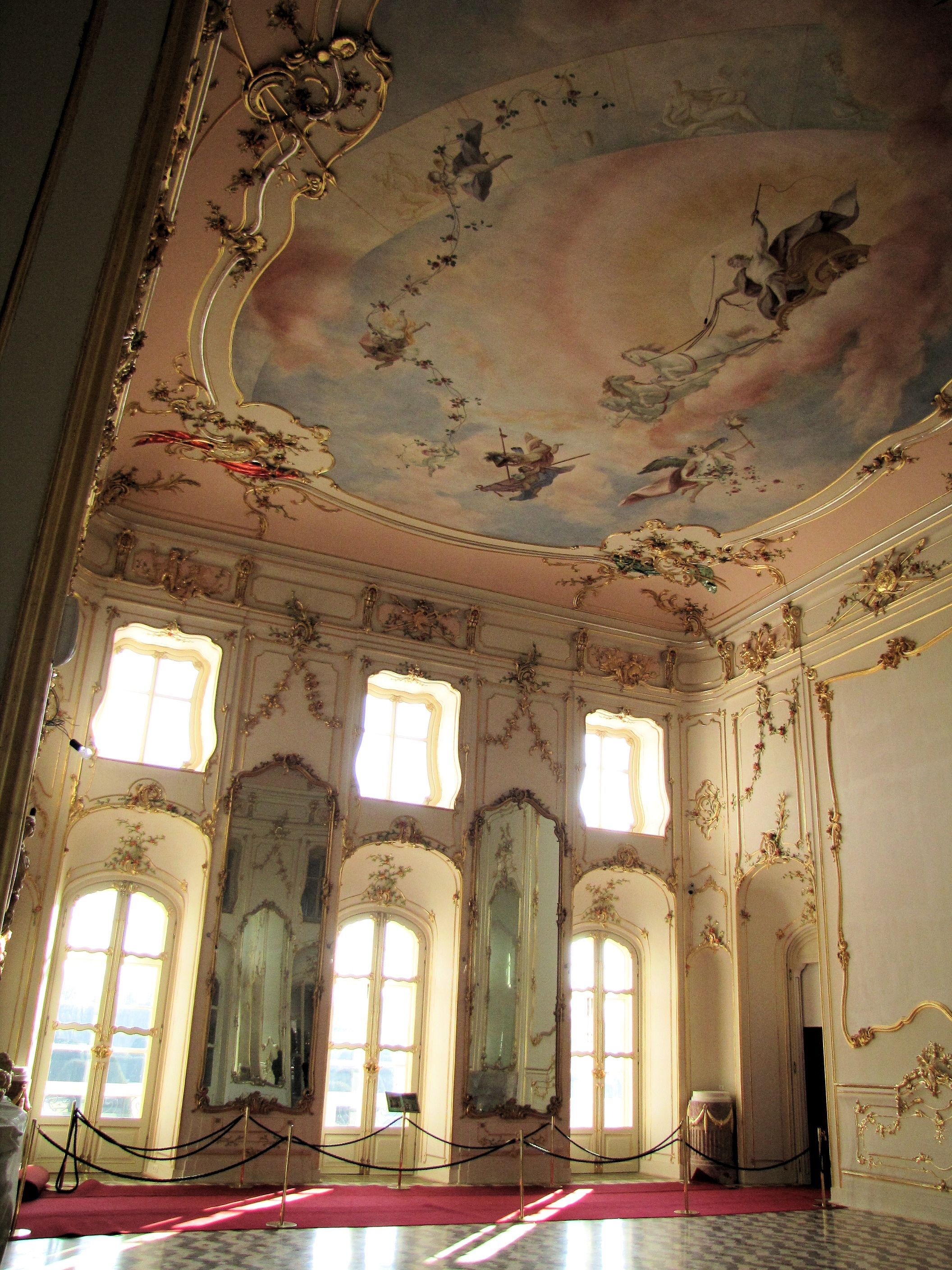 Great hall of the Esterházy-castle, Fertőd, Hungary.